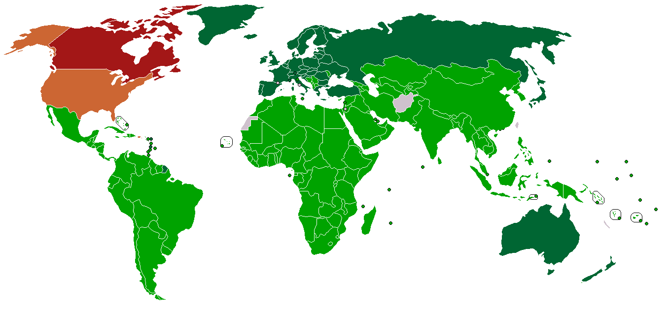 Kyoto Protocol participation map as of February 2012. ◼ Annex I & II countries with targets ◼ Developing countries without targets ◼ Countries which took no position or have an unknown position ◼ Countries with no intention to ratify the treaty ◼ Countries which have withdrawn